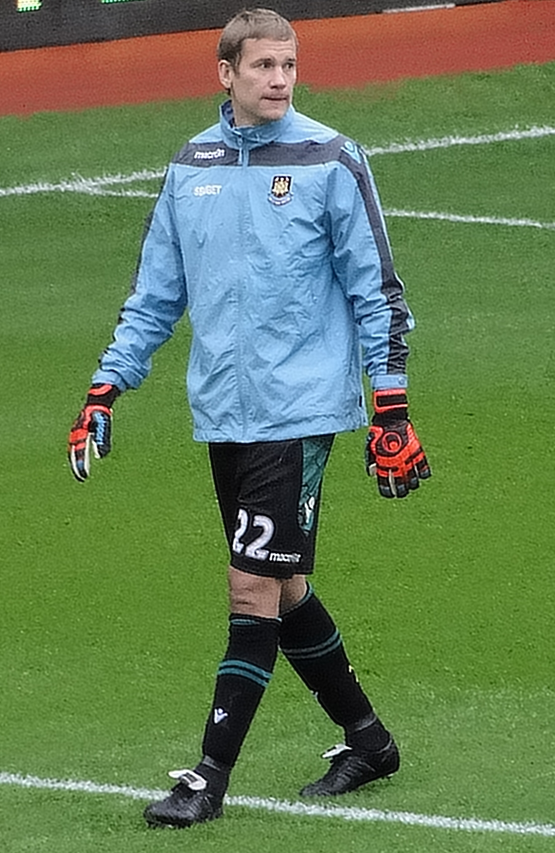 Jussi Jääskeläinen at the Boleyn Ground with West Ham United